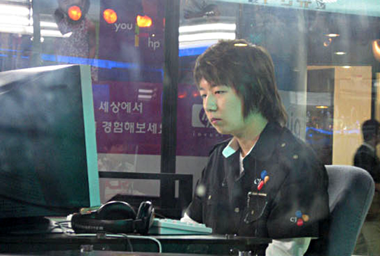 SaviOr Playing Starcraft